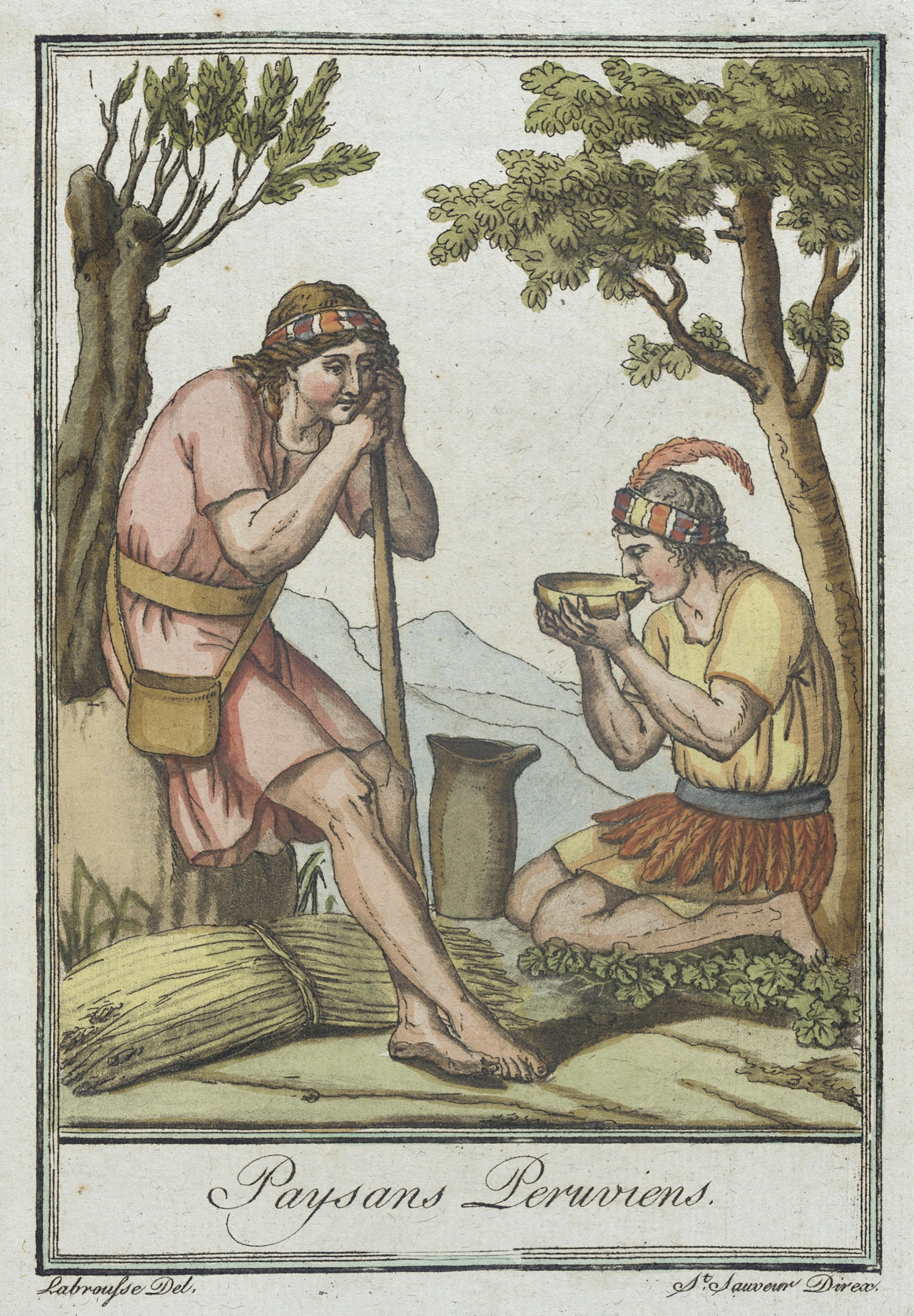 France, circa 1797 Prints; engravings Hand-tinted engraving on paper Sheet: 10 1/8 x 7 5/8 in. (25.72 x 19.37 cm); Composition: 7 3/4 x 5 1/4 in. (19.69 x 13.34 cm) Costume Council Fund (M.83.190.346) Costume and Textiles